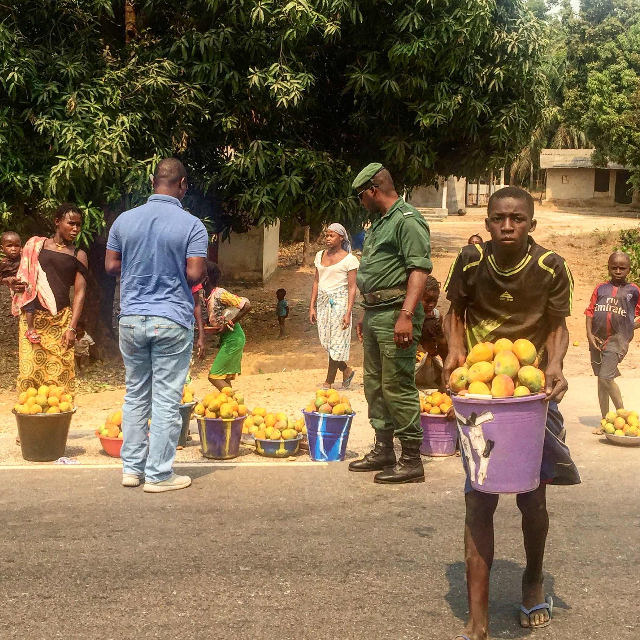 This is an image with the theme "Africa on the Move or Transport" from: Guinea